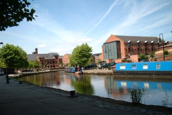 Image showing the Castlefield area in Manchester, UK. Taken myself.